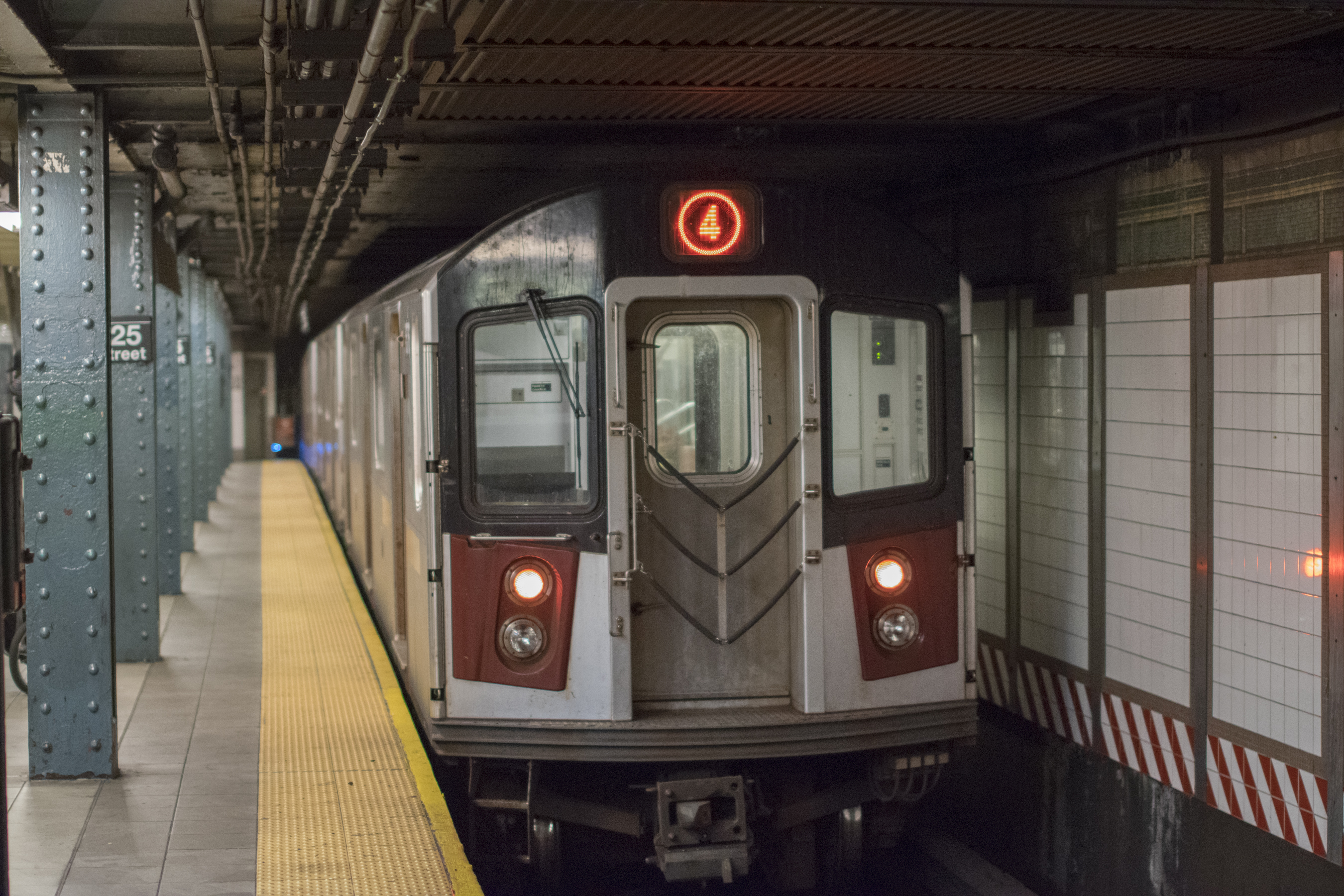 A 4 Train with an Kawasaki R142A consist leaves 125th Street.